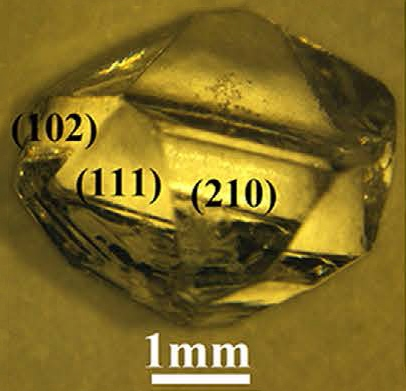 A typical prismatic RDX crystal